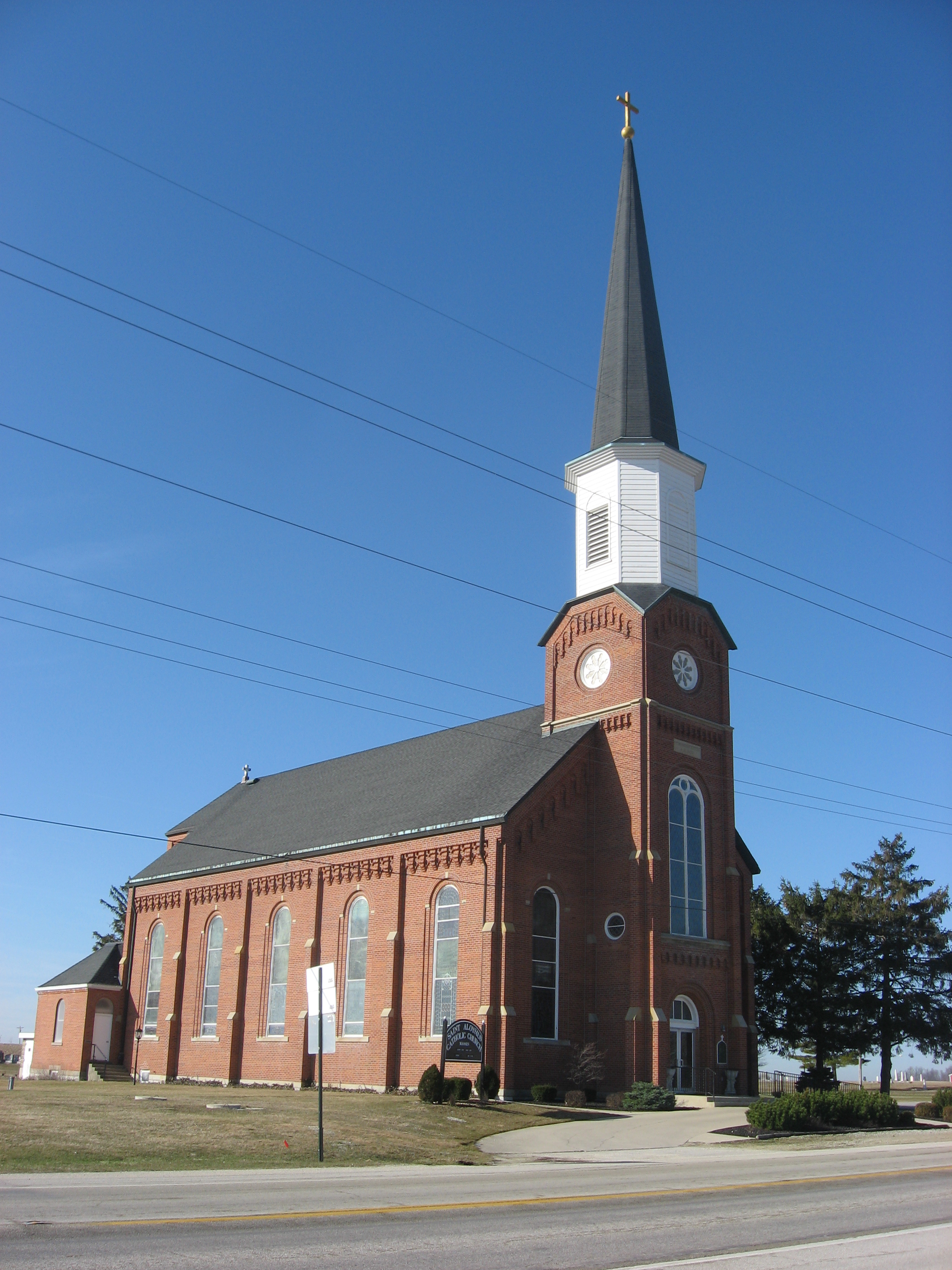 Front and eastern side of St. Aloysius' Catholic Church, located along State Route 274 immediately east of its intersection with U.S. Route 127 at Carthagena, an unincorporated community in Marion Township, Mercer County, Ohio, United States. Built in 1875, the church was added to the National Register of Historic Places as a part of the Cross-Tipped Churches of Ohio Thematic Resources.